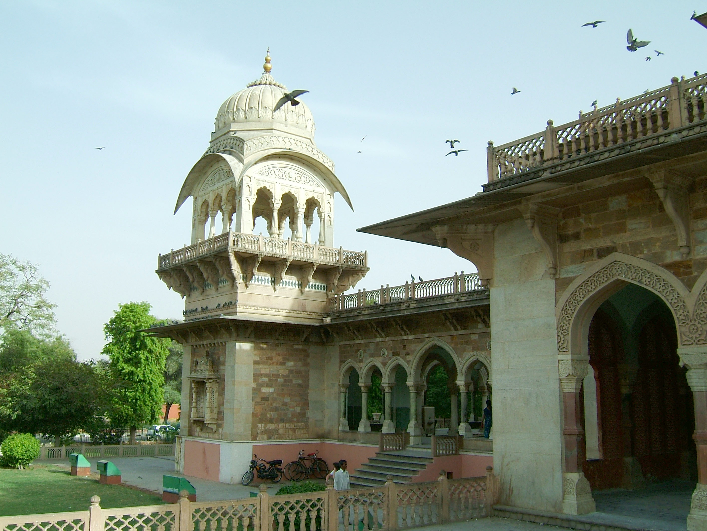 Albert Hall Museum cupola towers Jaipur Rajasthan